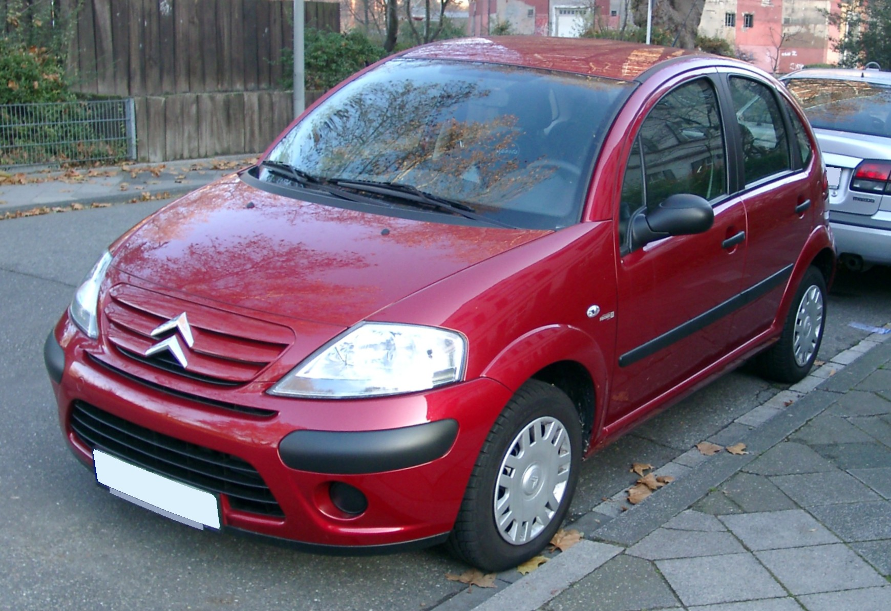 Citroën C3